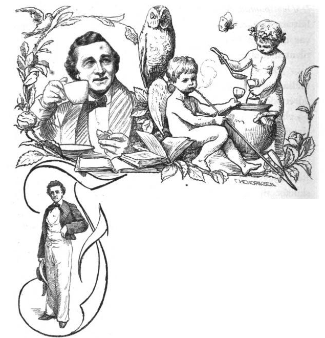 Danish actor Fritz Hultmann (1820-1894).